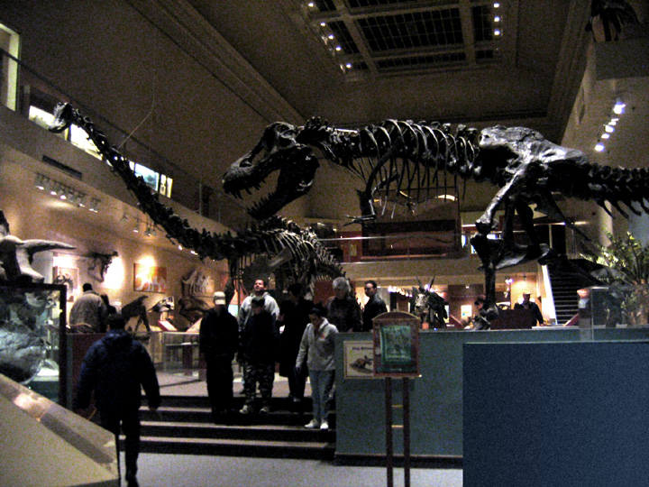 Hall of Dinosaurs at the National Museum of Natural History, Washington, DC